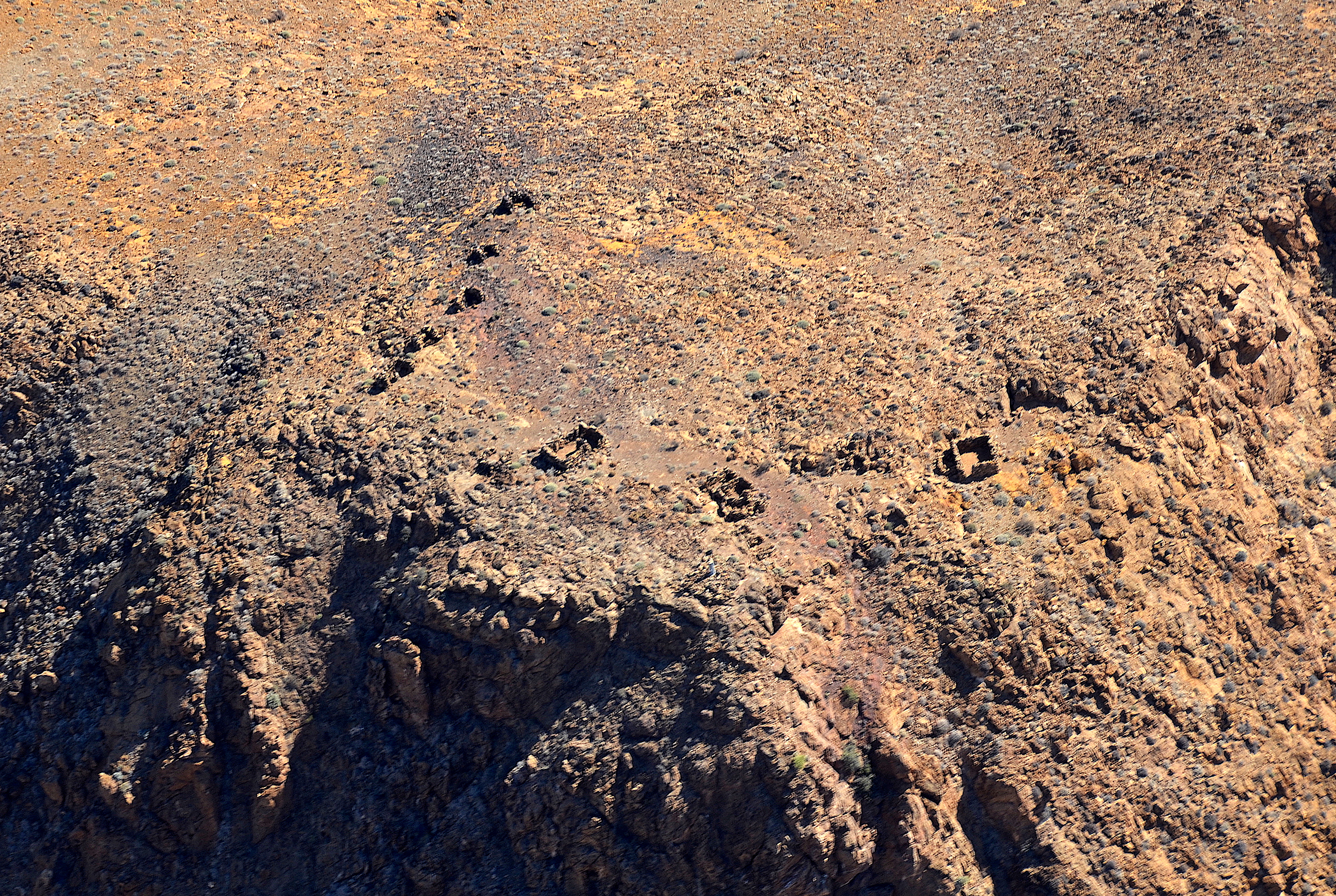 Ruins of German Schutztruppen on top of Dikwillem (2017)